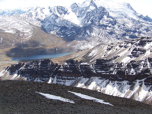 Wayna Potosí as seen from Chacaltaya near La Paz. The lake in front of Wayna Potosí is Janq'u Quta.